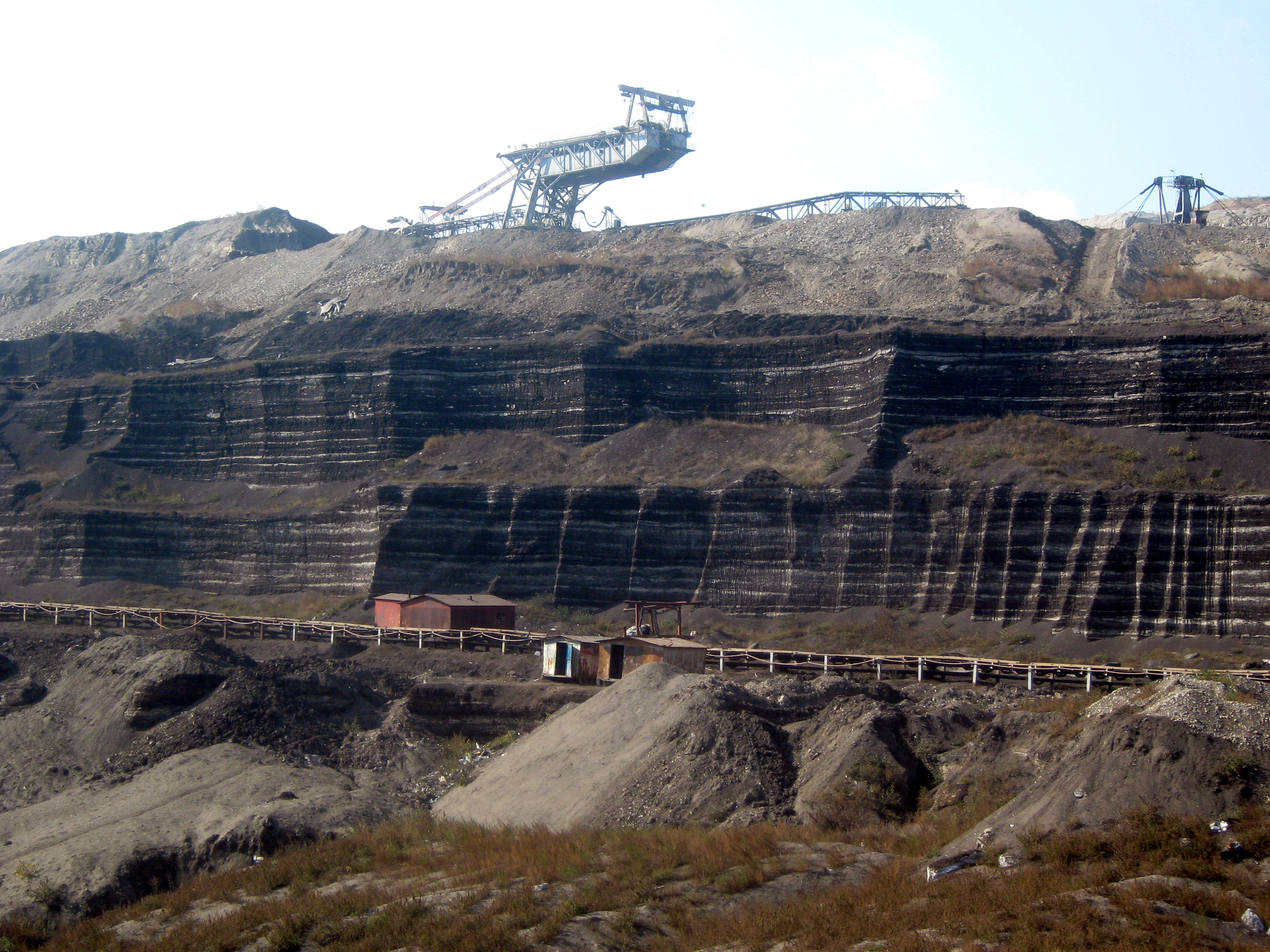 photo: Arian Selmani